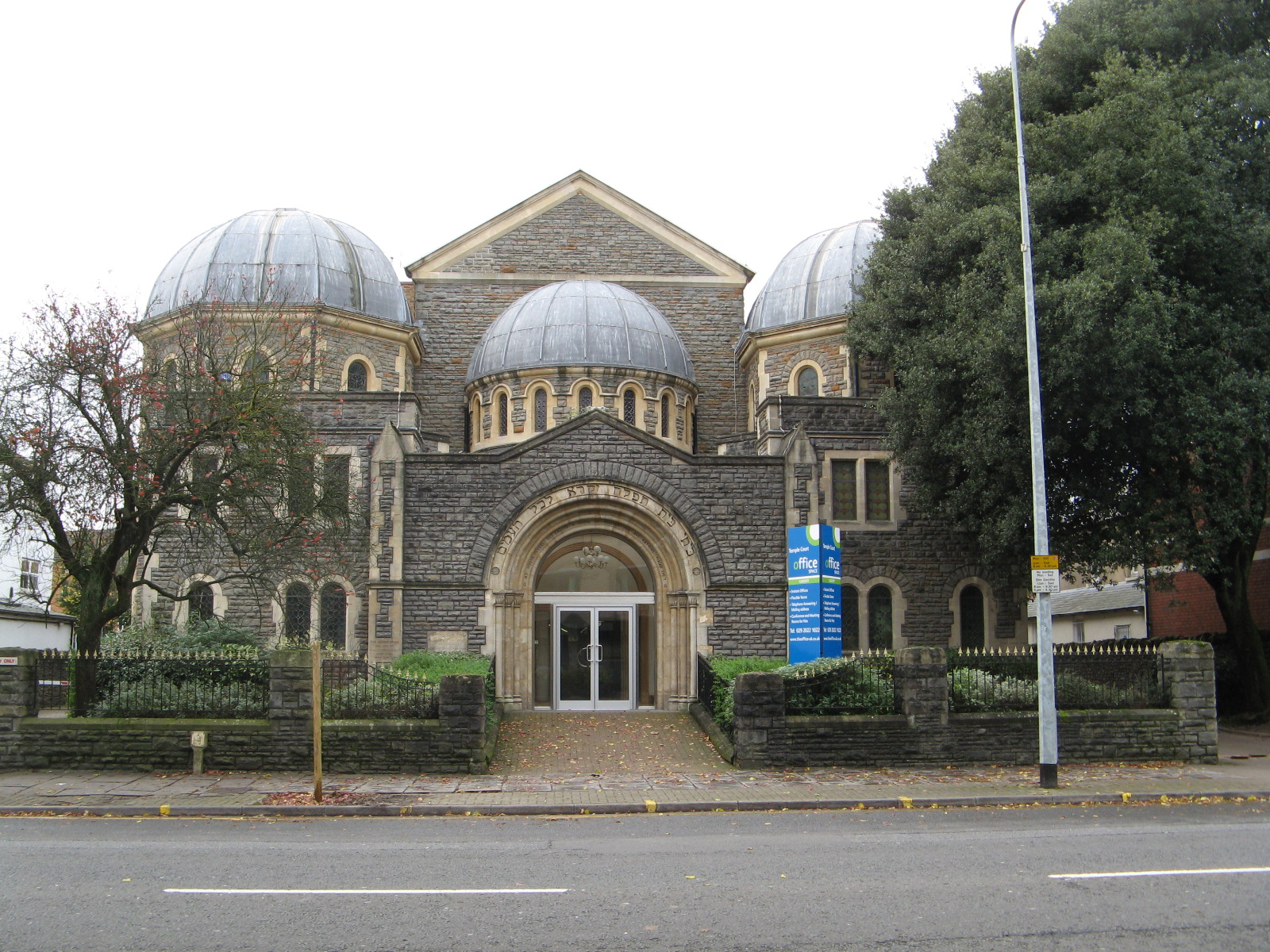 Temple Court, Cathedral Road, Cardiff, Wales, seen from the west. Completed in 1897 as Cardiff United Synagogue but is now a secular office building.